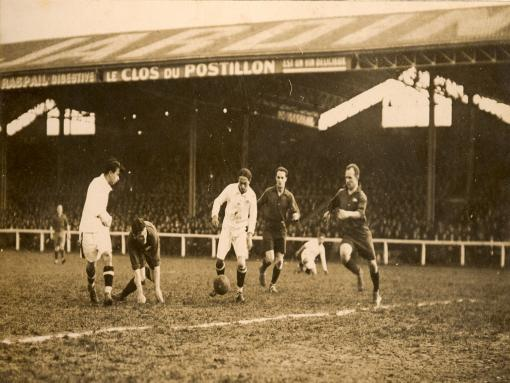 Arthur Friedenreich of C.A. Paulistano (Brazil) in the game v. French club Stade Français. Paulistano won 3-1.